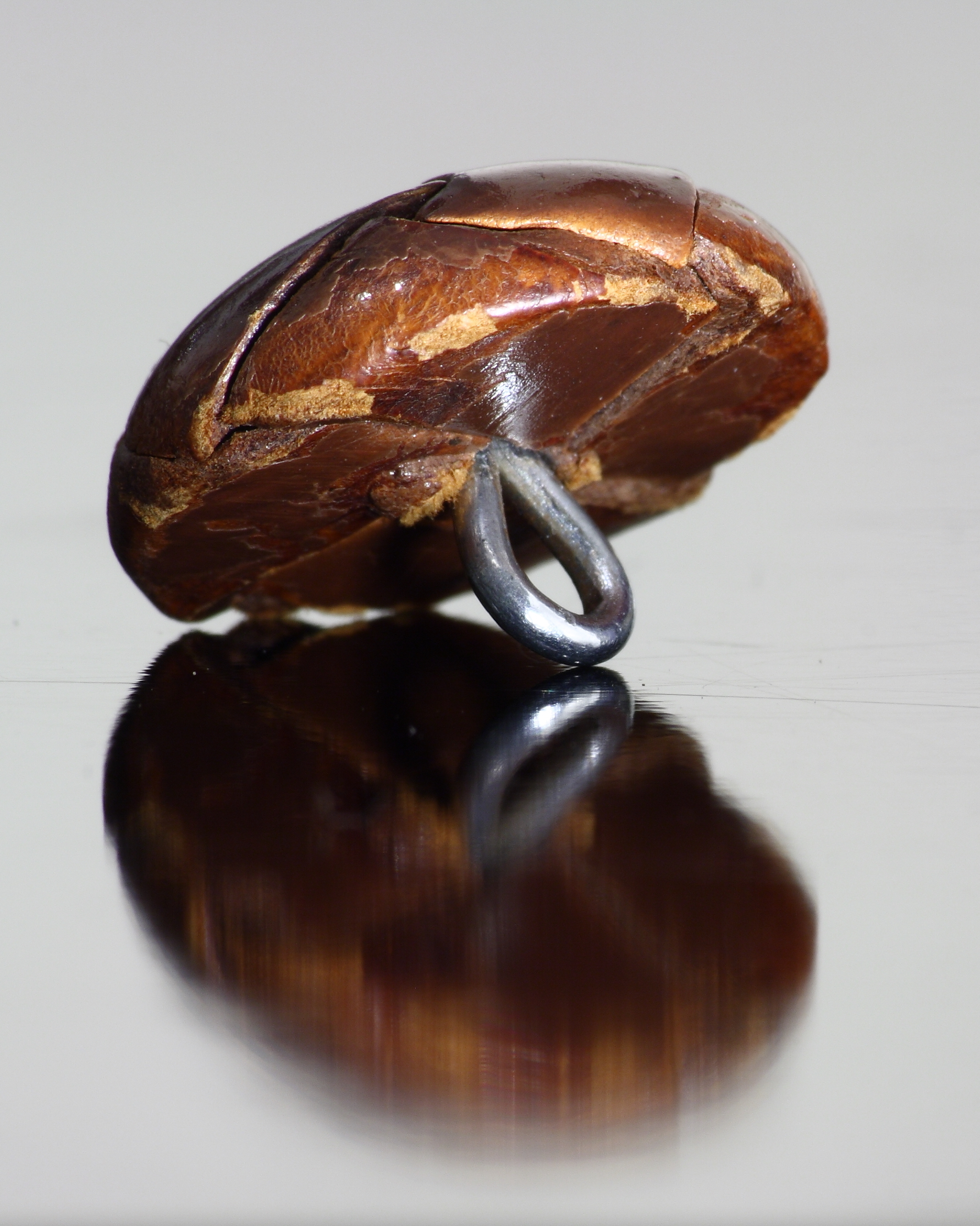 A leather button with a shank, taken from a tweed jacket.